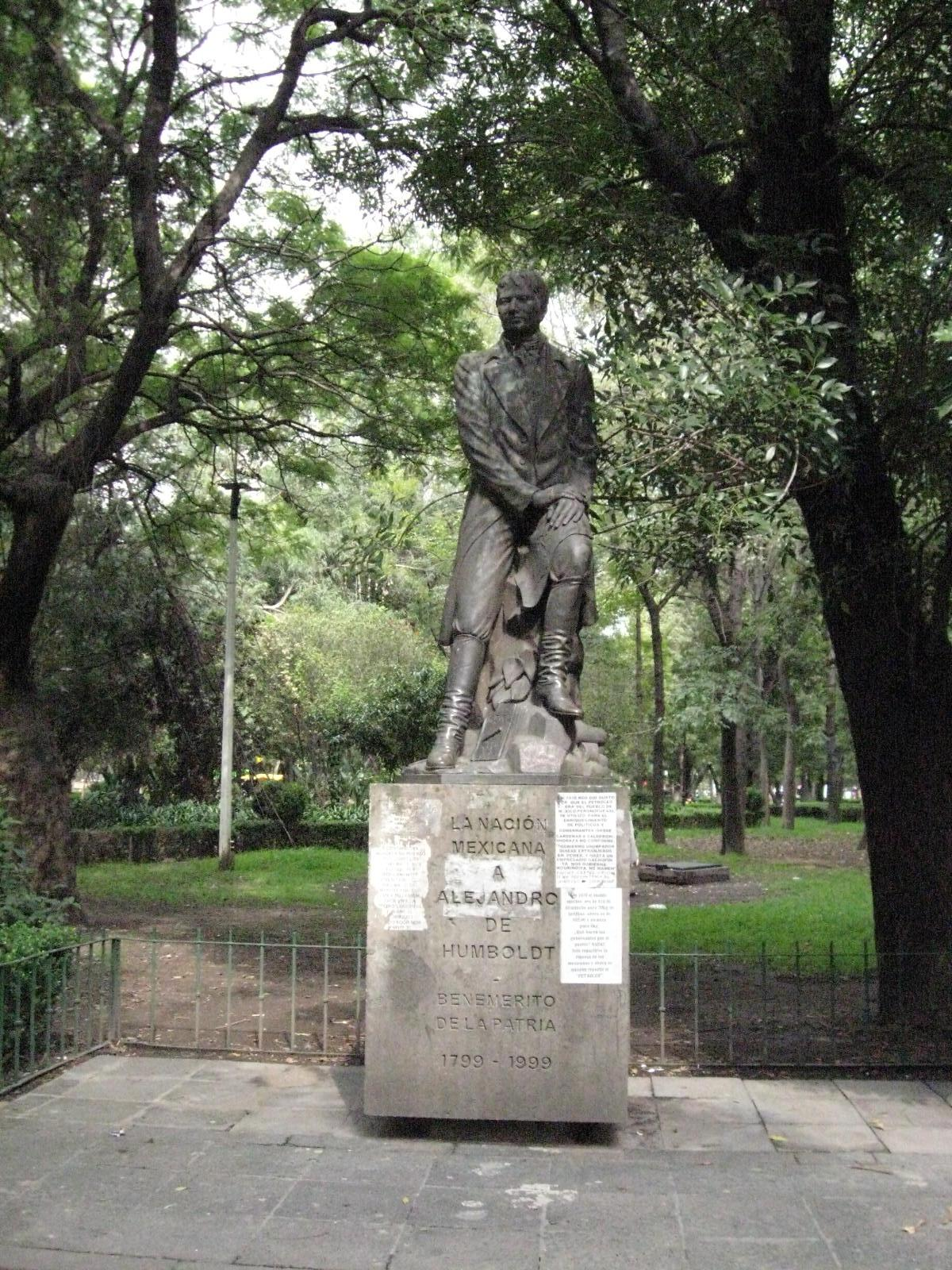 Statue of Alexander von Humboldt located in the Alameda Central (central park) of Mexico City. The inscription reads "From the Mexican Nation to Alejandro de Humboldt - Merit from the country 1799-1999"